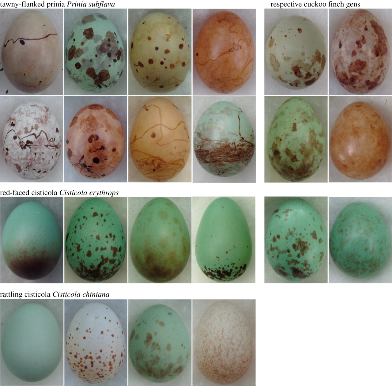 A comparison of cuckoo finch (Anomalospiza imberbis) eggs and their hosts' eggs. Representative host (left) and parasitic (right) eggs showing the range of polymorphism among females. Each egg came from a different clutch. No parasitic gens is shown for the rattling cisticola because it is not currently parasitized at our study site. (Note: not to scale.)